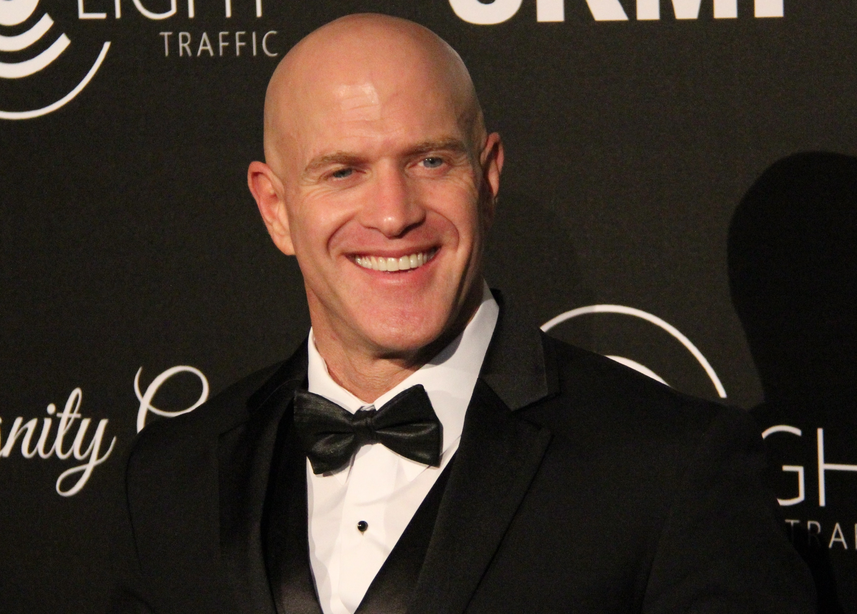 Bruno Gunn at Redlight Traffic's inaugural Dignity Gala 2013.